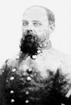 Picture of William Stephen Walker in confederate uniform.